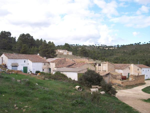 Hoya Redonda